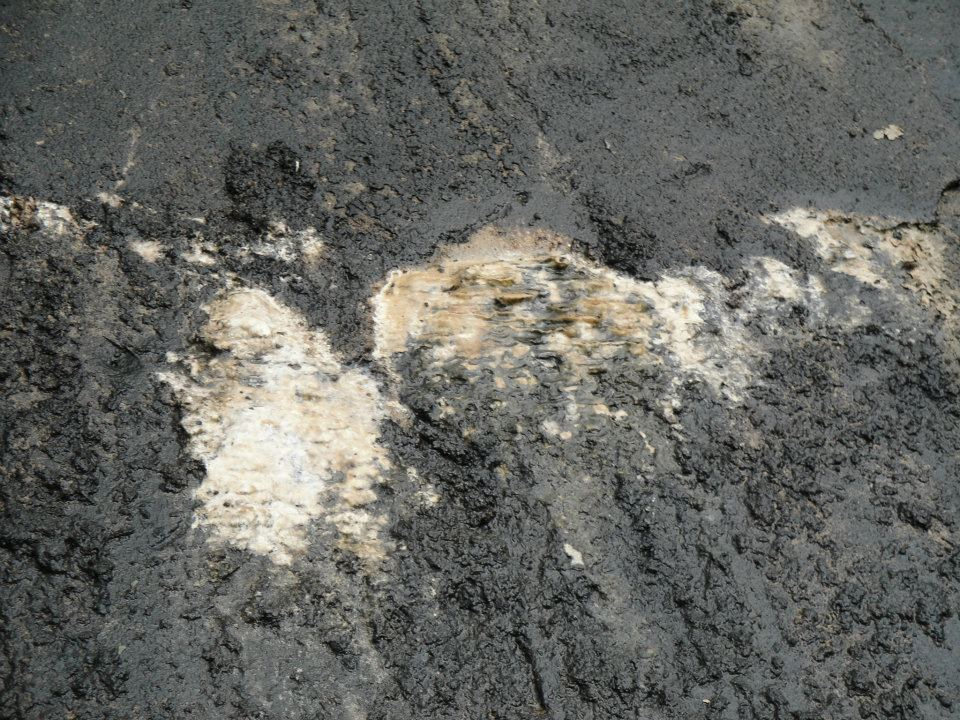 LeakFound Dam